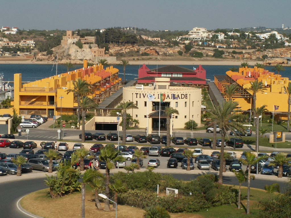 Tivoli Marina resort hotel, Portimao, Algarve, Portugal